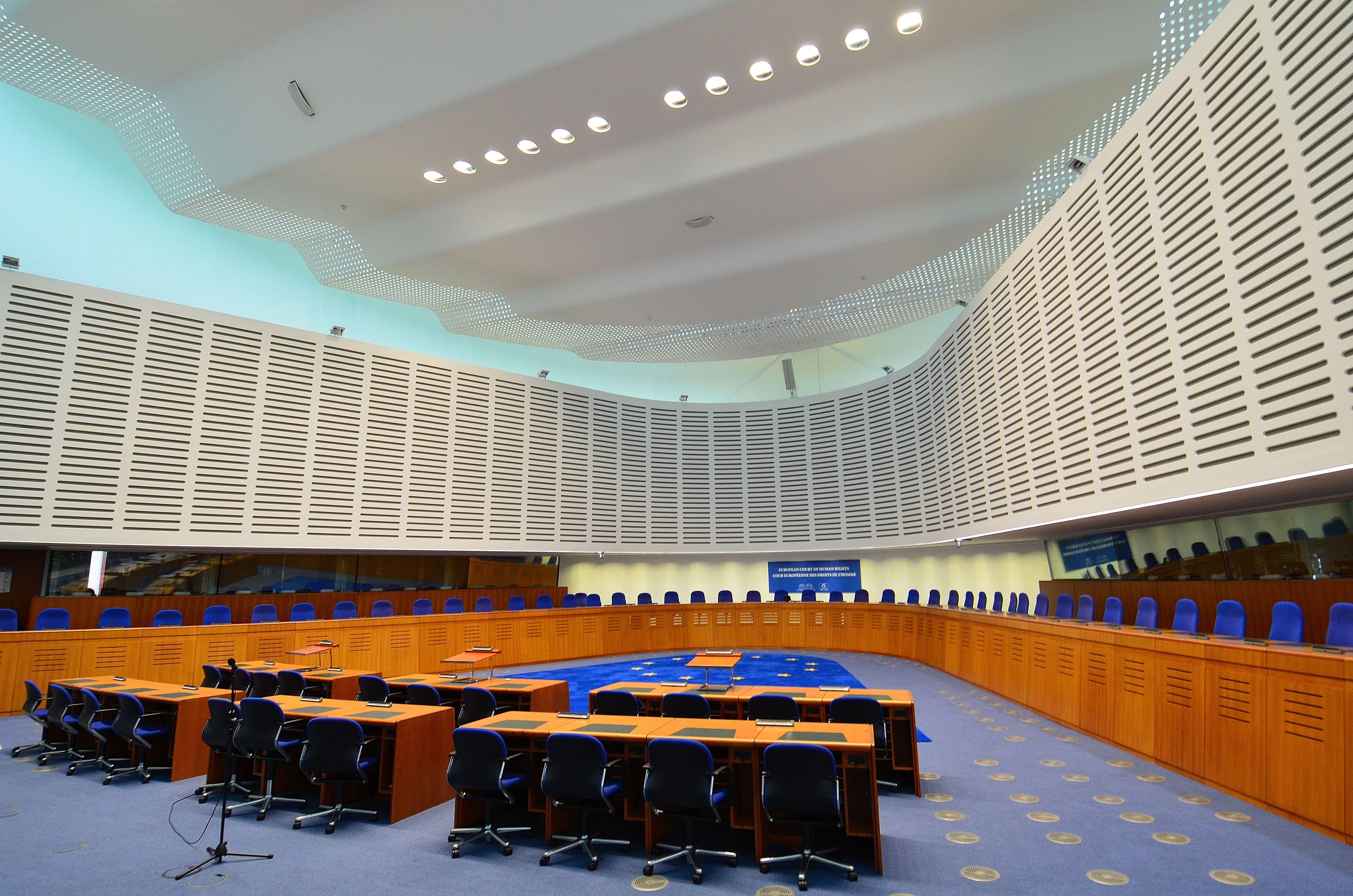 Courtroom of the European Court of Human Rights in Strasbourg